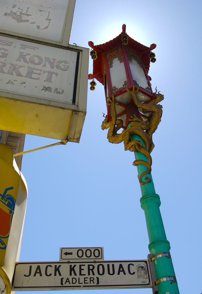 A street sign of Jack Kerouac Alley.